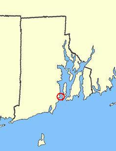 Approximate location of the Jamestown Bridge